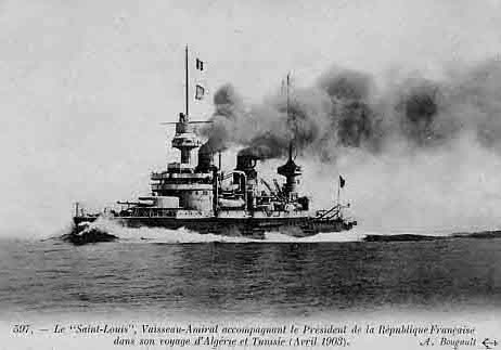 French battleship Saint Louis